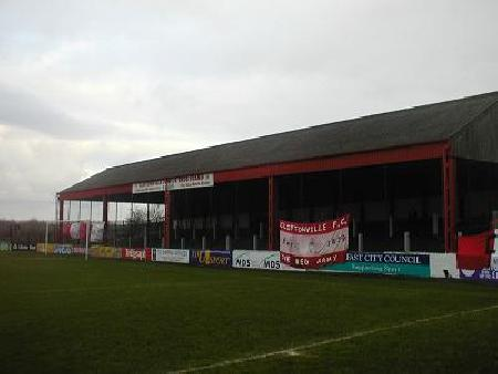 Solitude